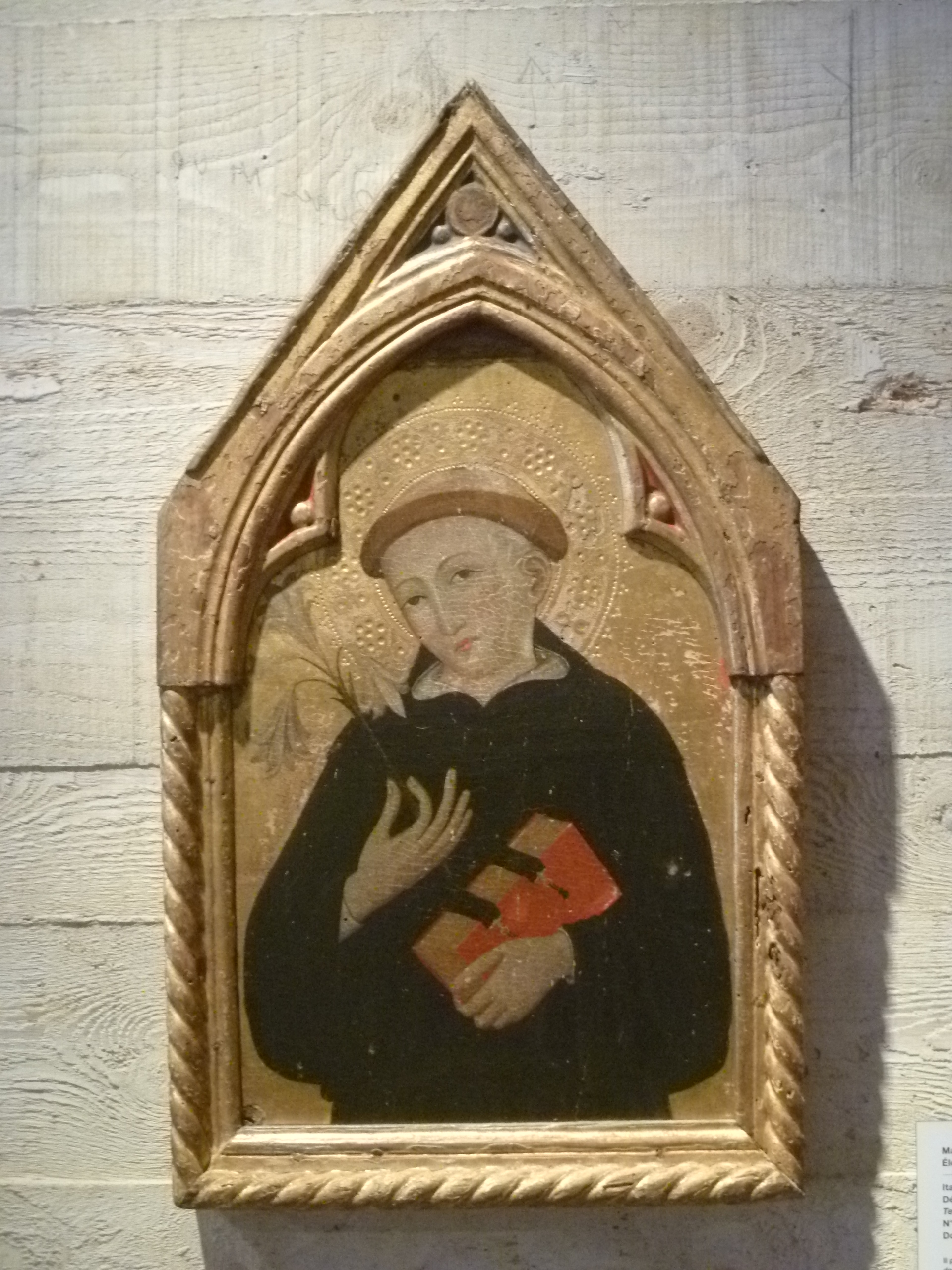 Saint Nicholas of Tolentino; part of an altarpiece by the Master of Narni (?); Umbria, Italy; early15 th century; collection of the Musée L, Ottignies-Louvain-la-Neuve; Belgium